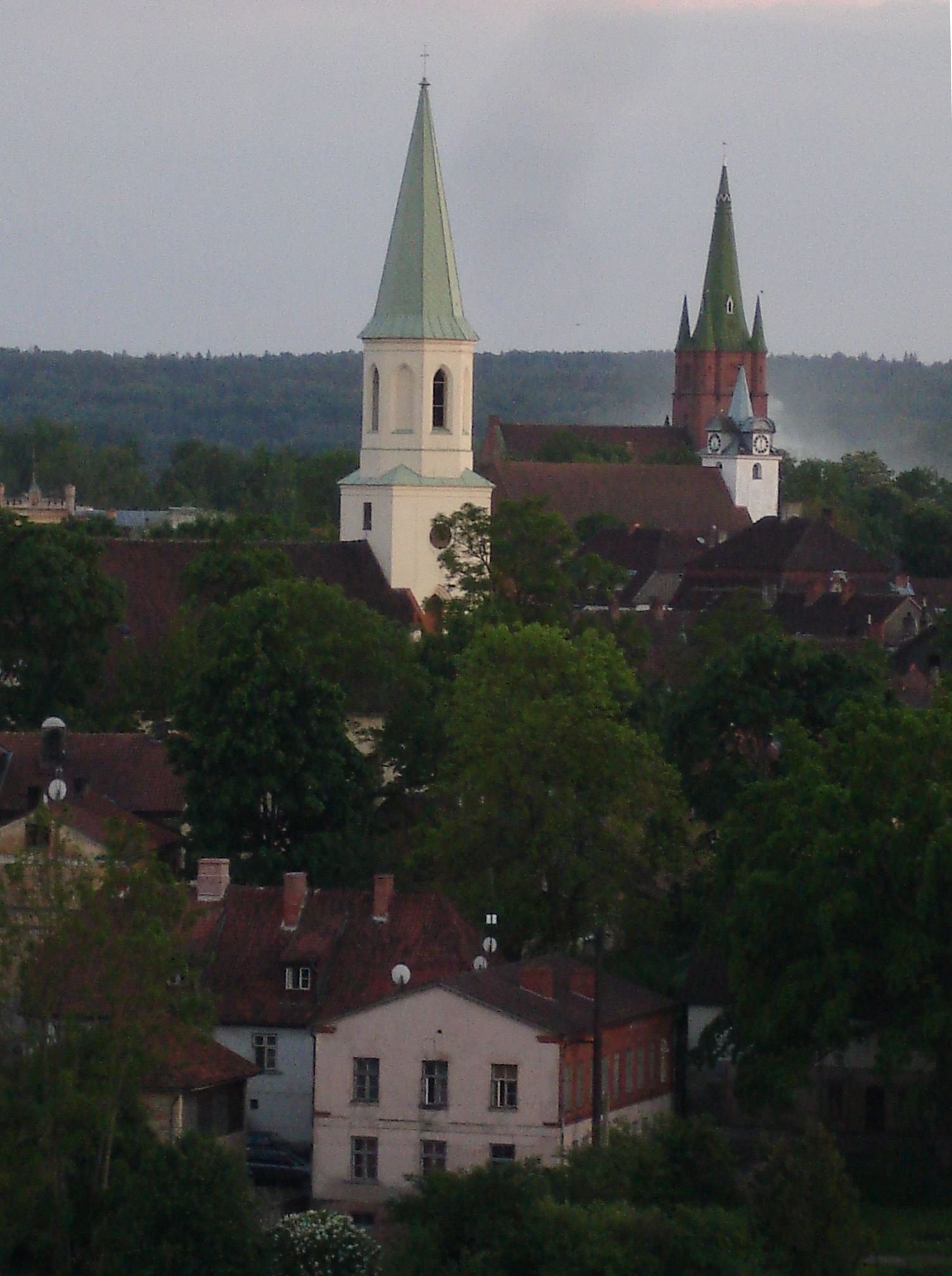 Three churches in Kuldiga